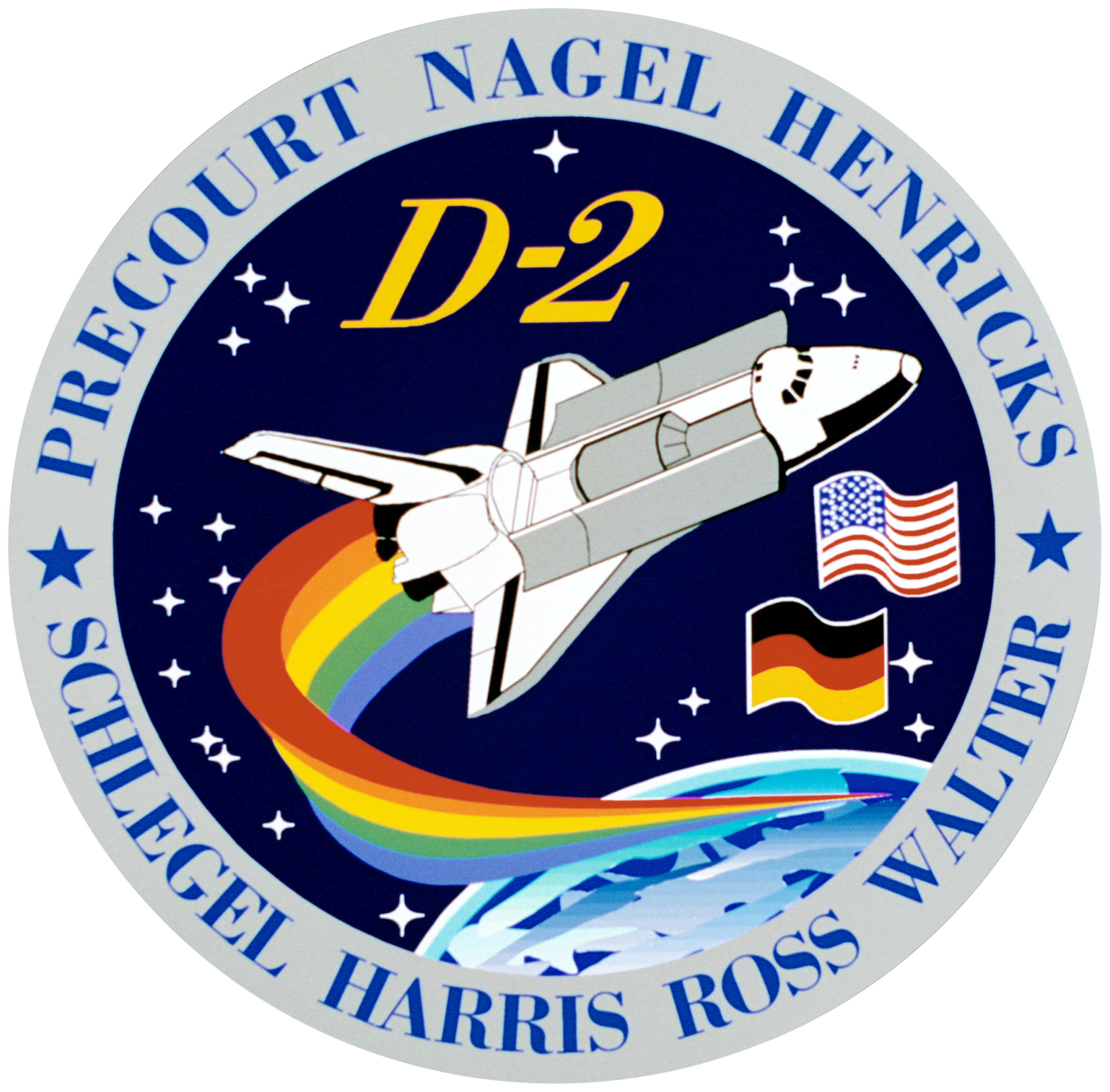 STS-55 Mission Insignia The official insignia of the STS-55 mission displays the Space Shuttle Columbia over an Earth-sky background. Depicted beneath the orbiter are the American and German flags flying together, representing the partnership of this laboratory mission. The two blue stars in the border bearing the crewmembers' names signify each of the backup (alternate) payload specialists -- Gerhard Thiele and Renate Brummer. The stars in the sky stand for each of the children of the crewmembers in symbolic representation of the space program's legacy to future generations. The rainbow symbolizes the hope for a brighter tomorrow because of the knowledge and technologies gained from this mission's multifaceted experiments. Each crewmember contributed to the design of the insignia.